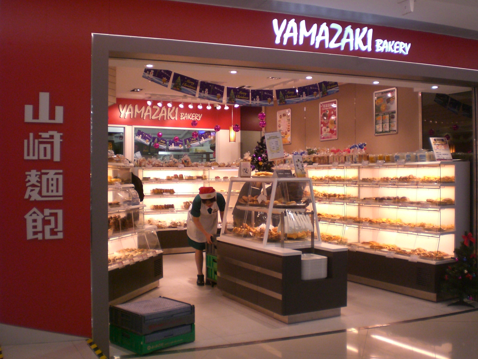 記利佐治街皇室堡zh:山崎麵包, Yamazaki Bakery, Windsor Plaza, , Great George Street, Causeway Bay, Hong Kong